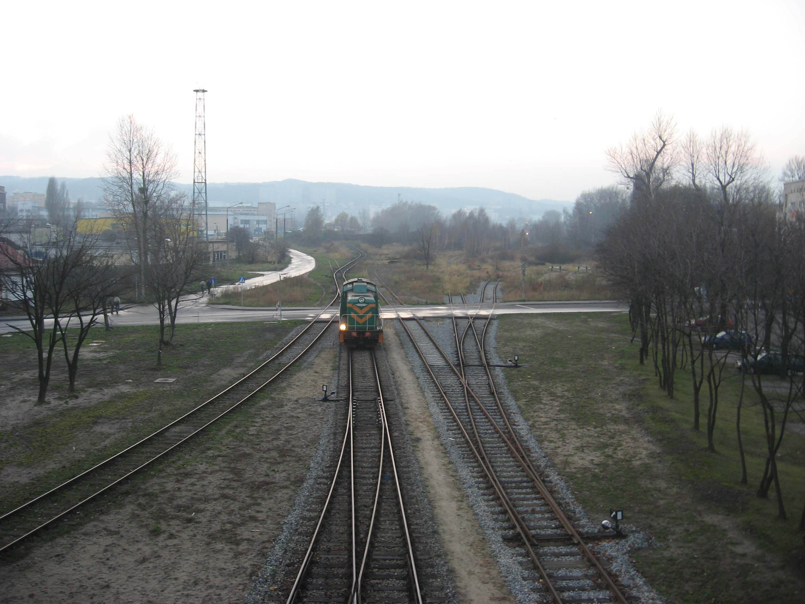 Międzytorze - ex-industrial part of Gdynia.